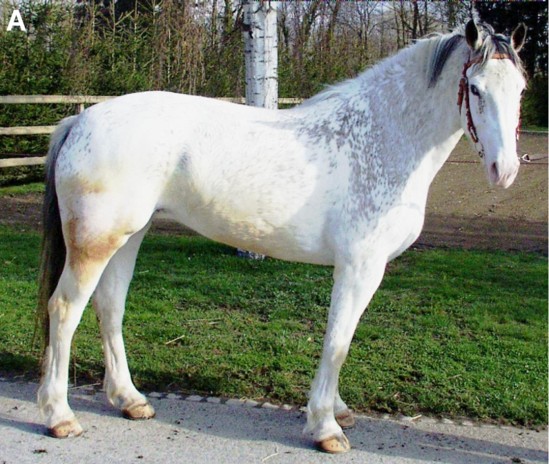 (A) Dominant white Franches-Montagnes mare with little residual pigmentation.